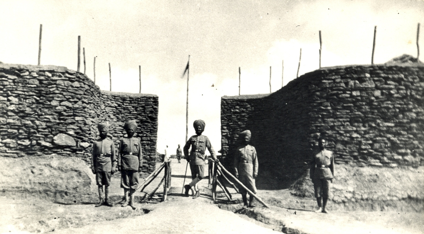 Fort Johnston in present day Mangochi, Malawi